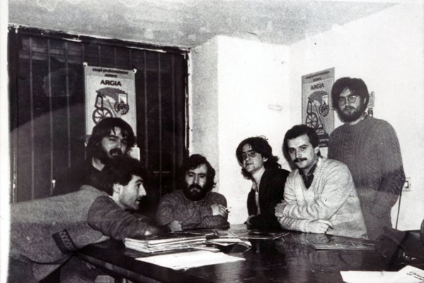 Some of the creators of the Argia journal in Basque language